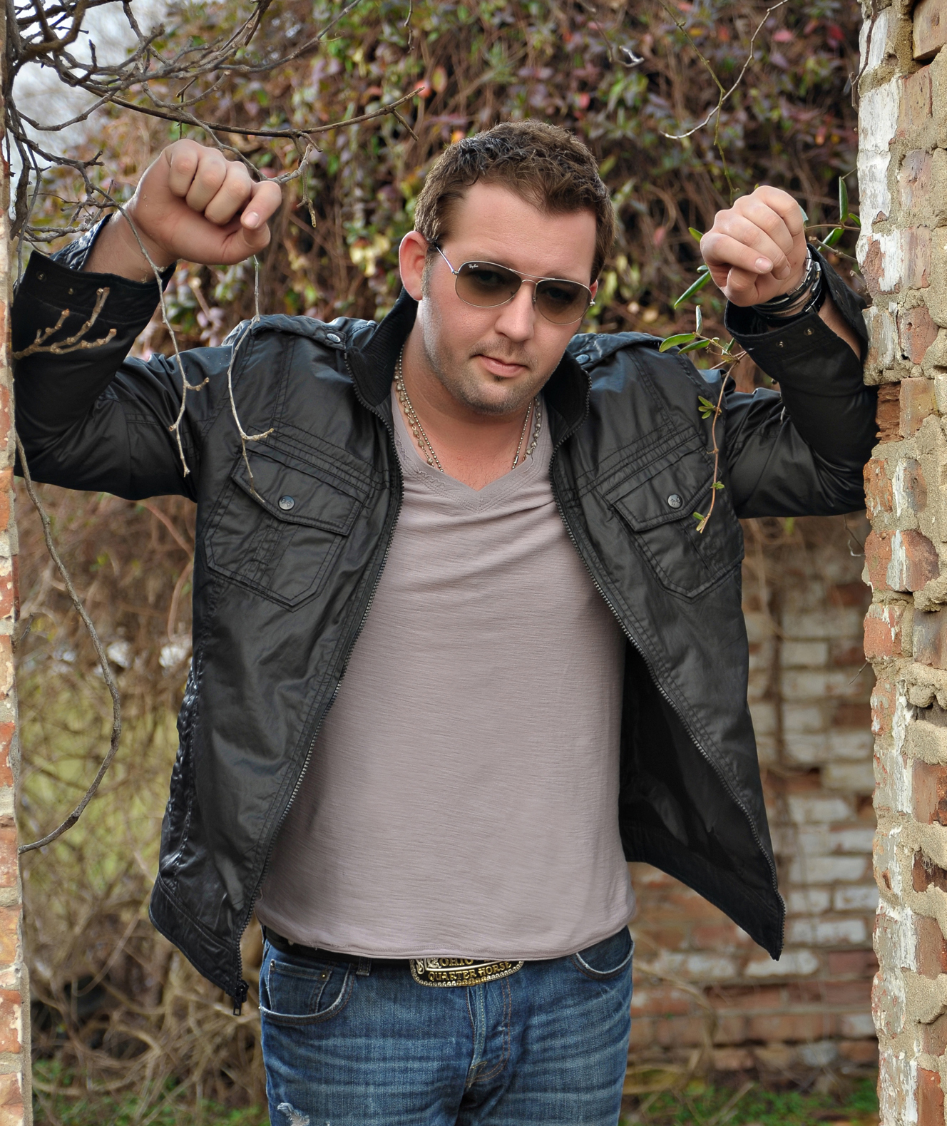 jsturgeon wikipedia picture